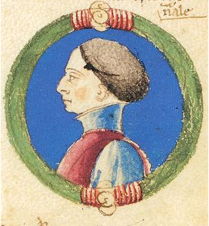 Rinaldo d'Este, (b. 1230), son of Azzo VII d'Este